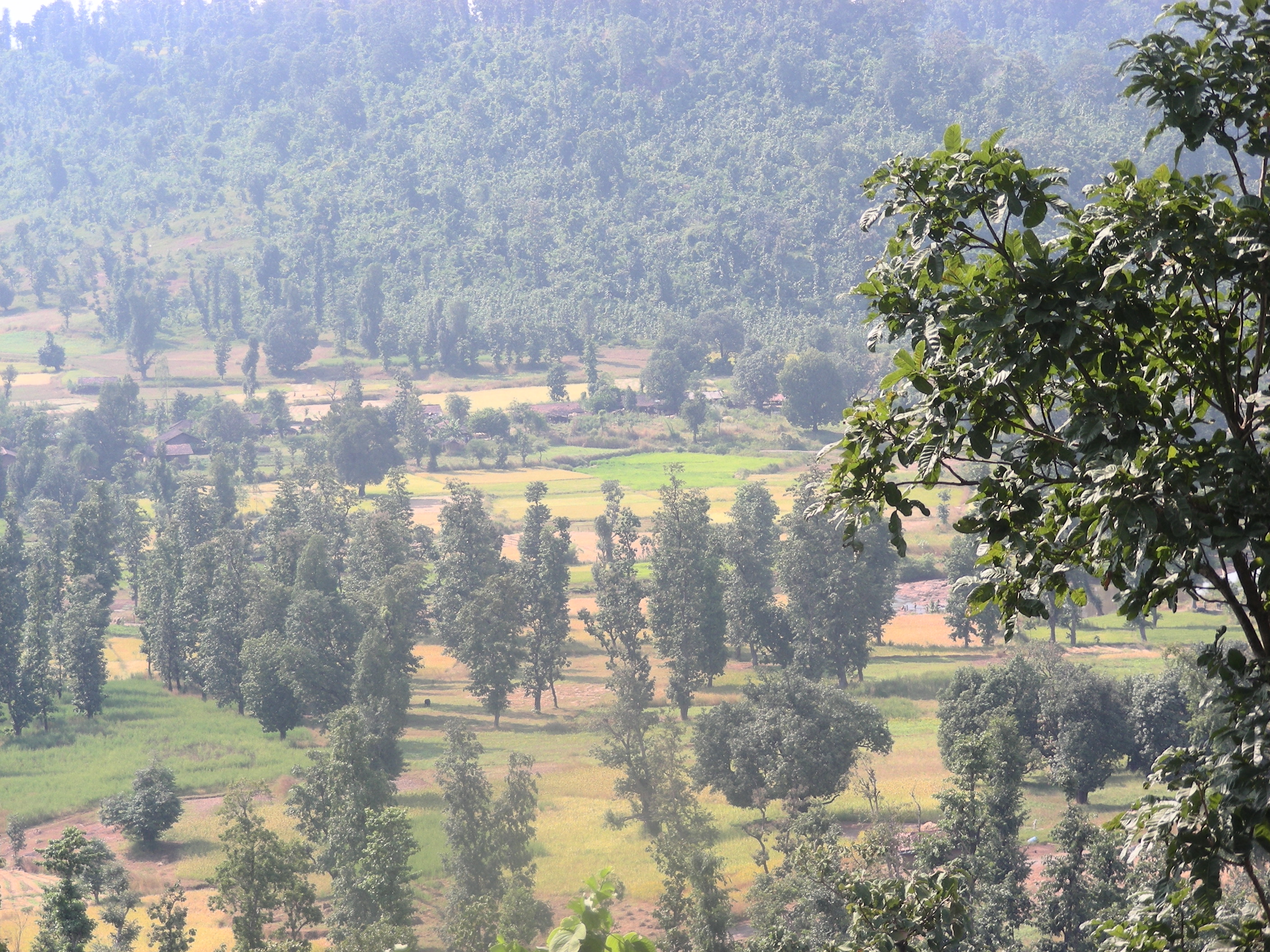 Saputara. Valley view from sunset point. ગુજરાતી: Gujarat.